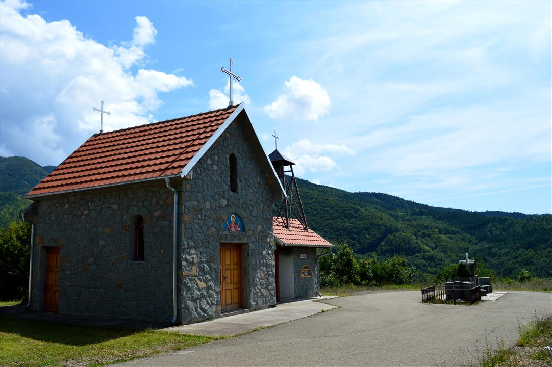 Raska Municipality - Žerađe